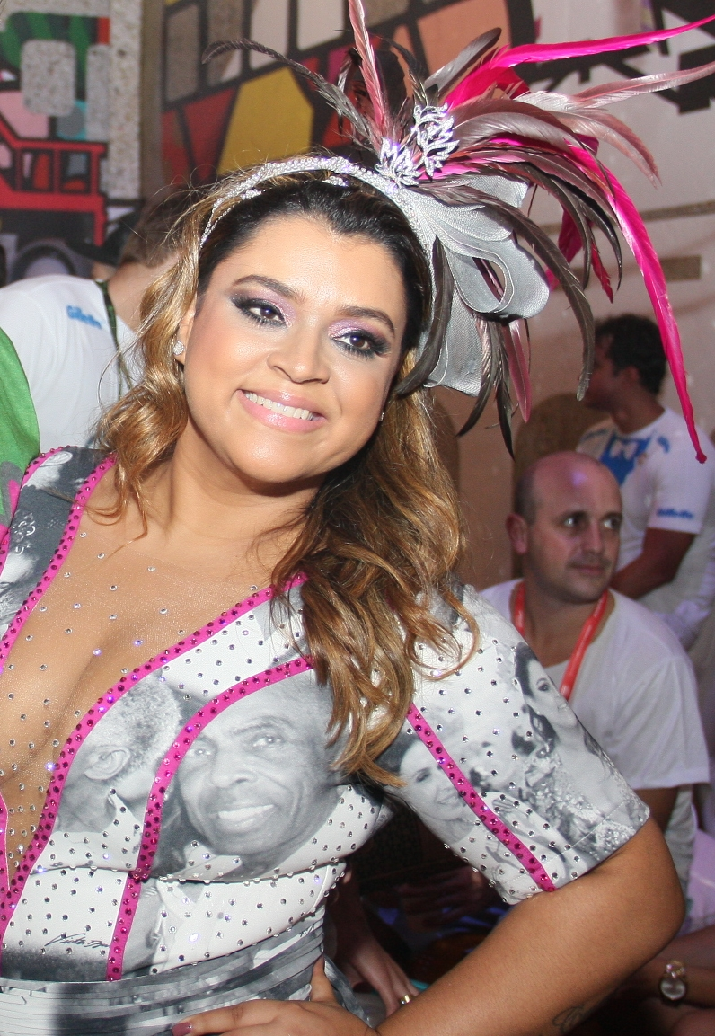 Preta Gil no camarote do carnaval de 2013.